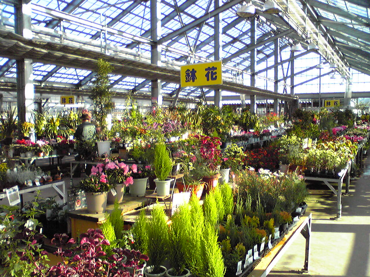 Flower store at Michinoeki Kamuri Niitsu in Niigata City, Niigata Prefecture, Japan